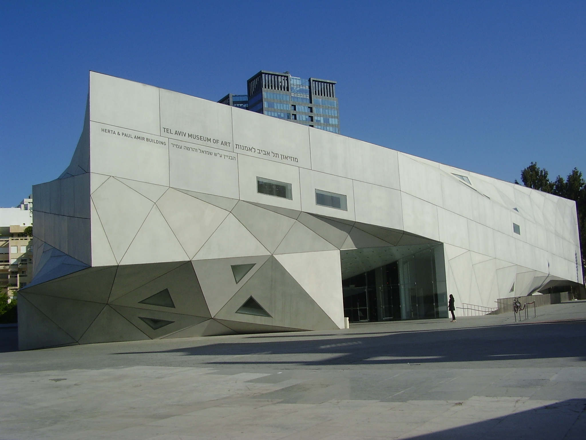 The new wing of Tel Aviv museum of art